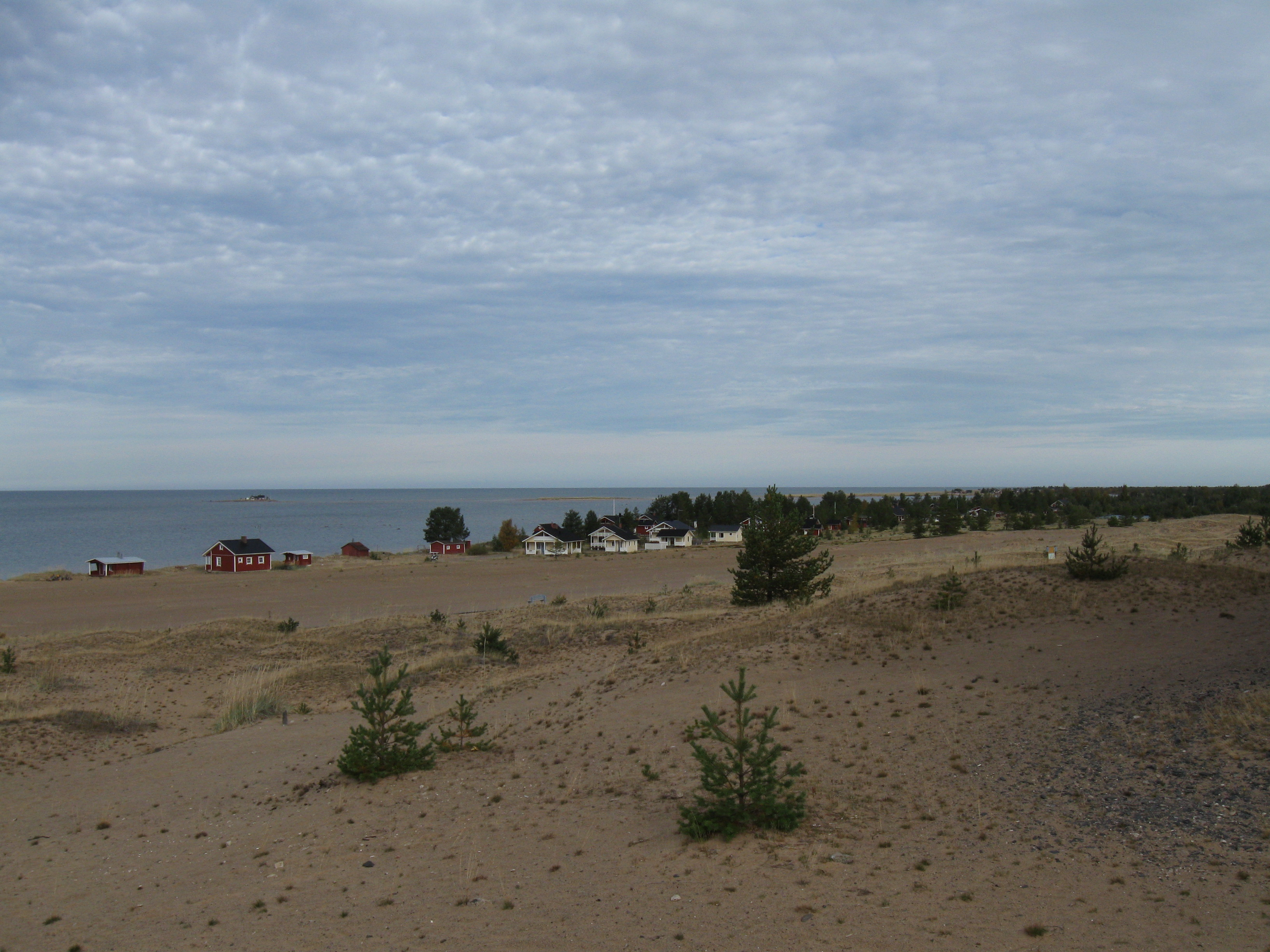 The recreational area Hiekkasärkät in Kalajoki, Finland.